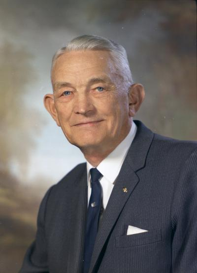 Senator Damon R. Canfield, 1969